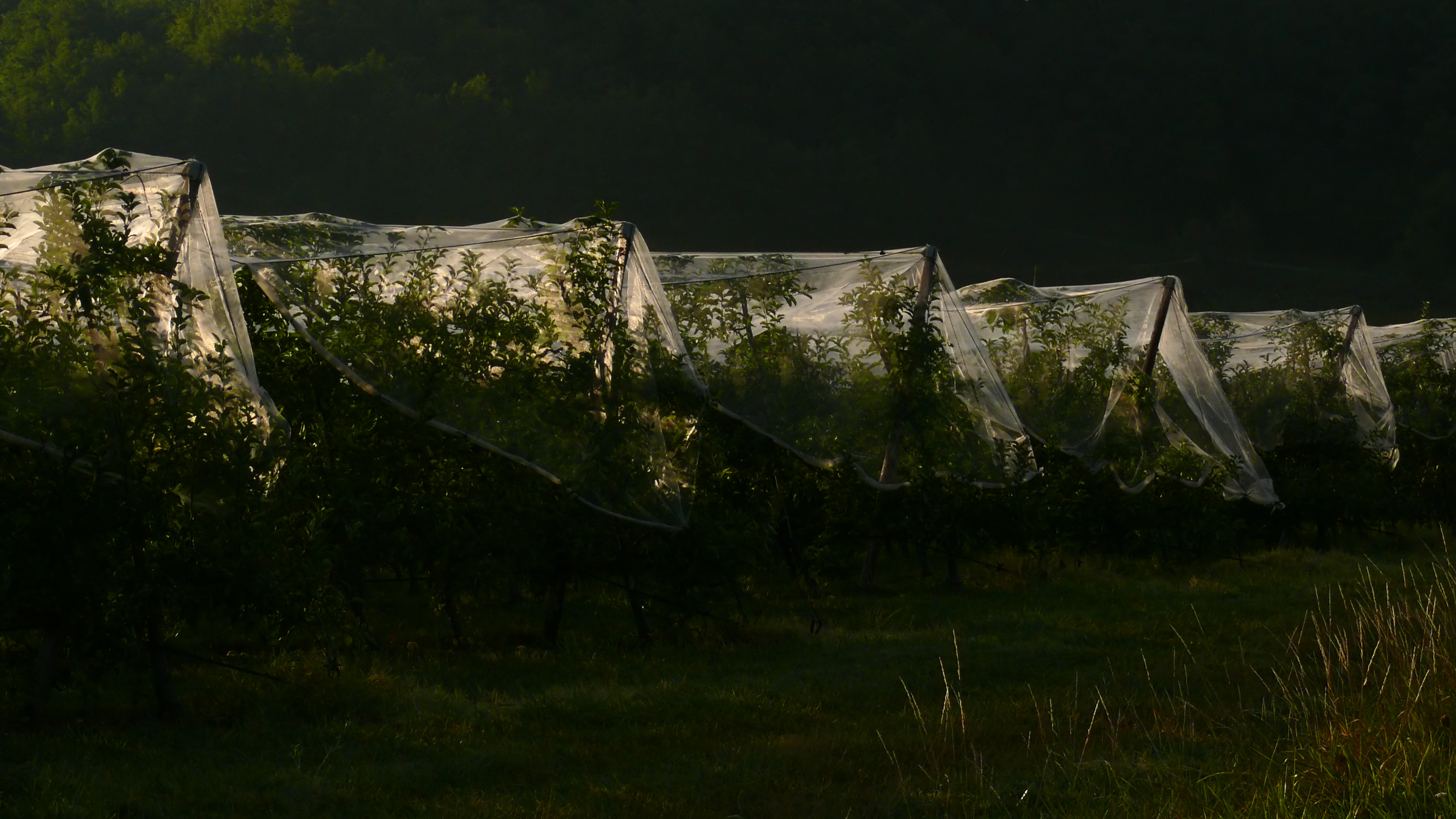 Apple culture in Périgord, France